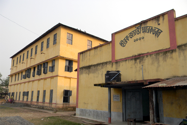 Bhogpur K. M. High School